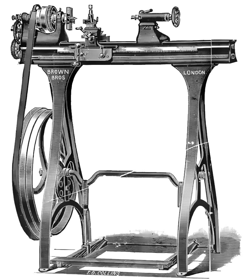 Fig. 197 Brown Bros screwcutting treadle lathe Scans from 'The Book of the Motor Car', Rankin Kennedy C.E., 1912 See other images from this source in Scans from 'The Book of the Motor Car'